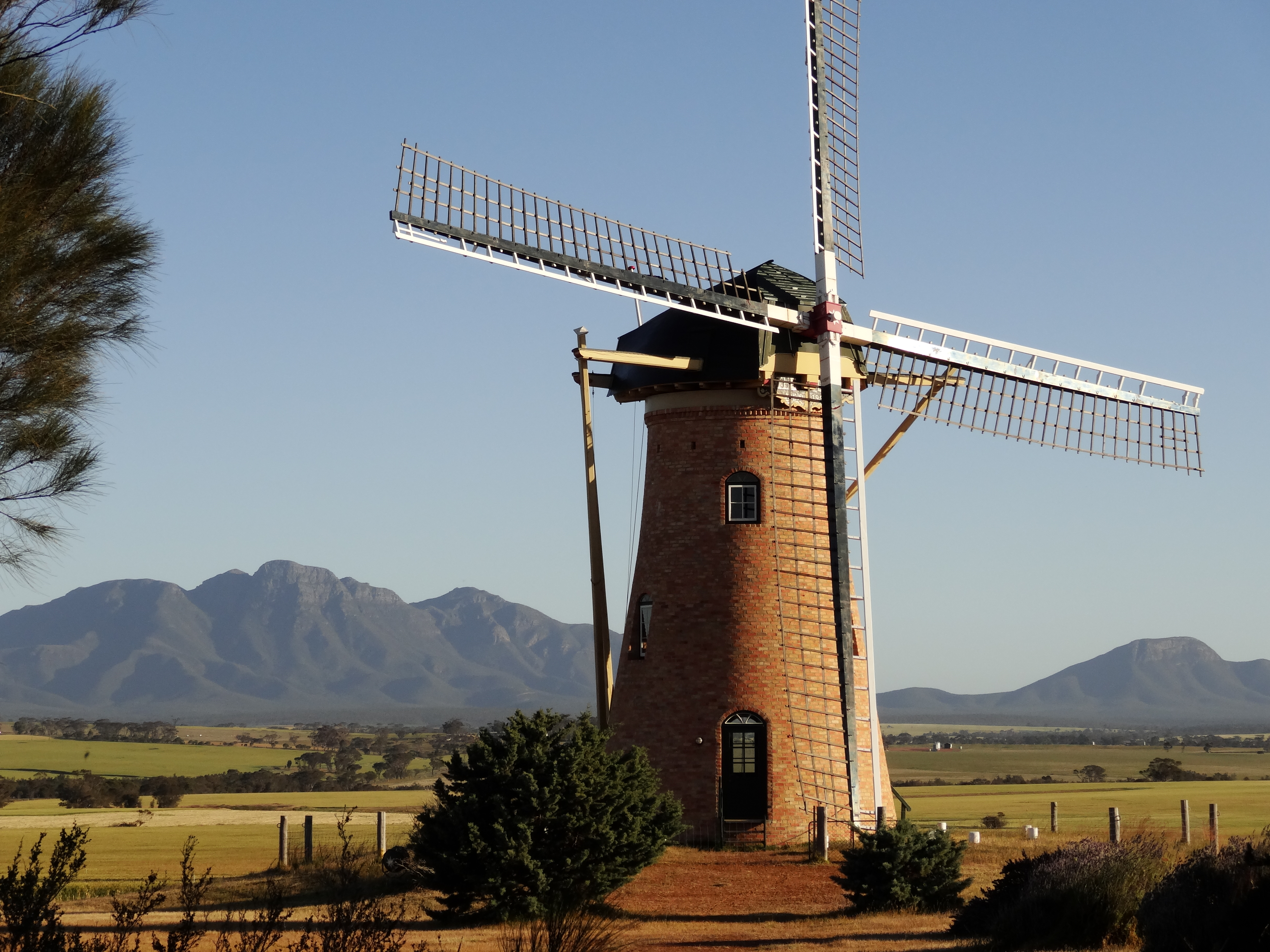 The Lily windmill as seen from the north with Stirling ranges in the background.